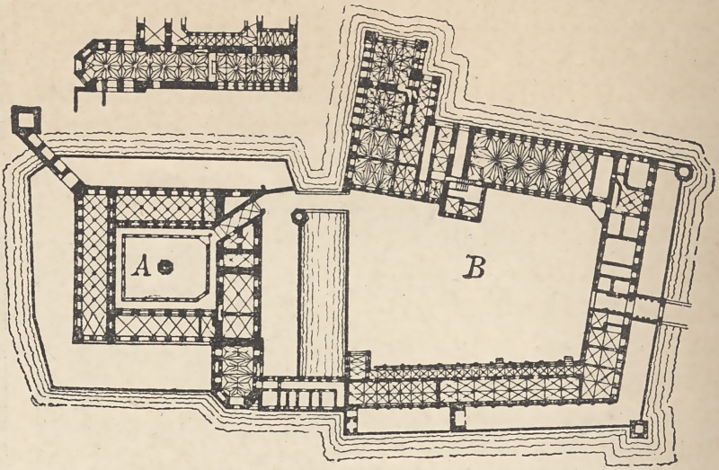 Plan of ground floor in Malbork castle